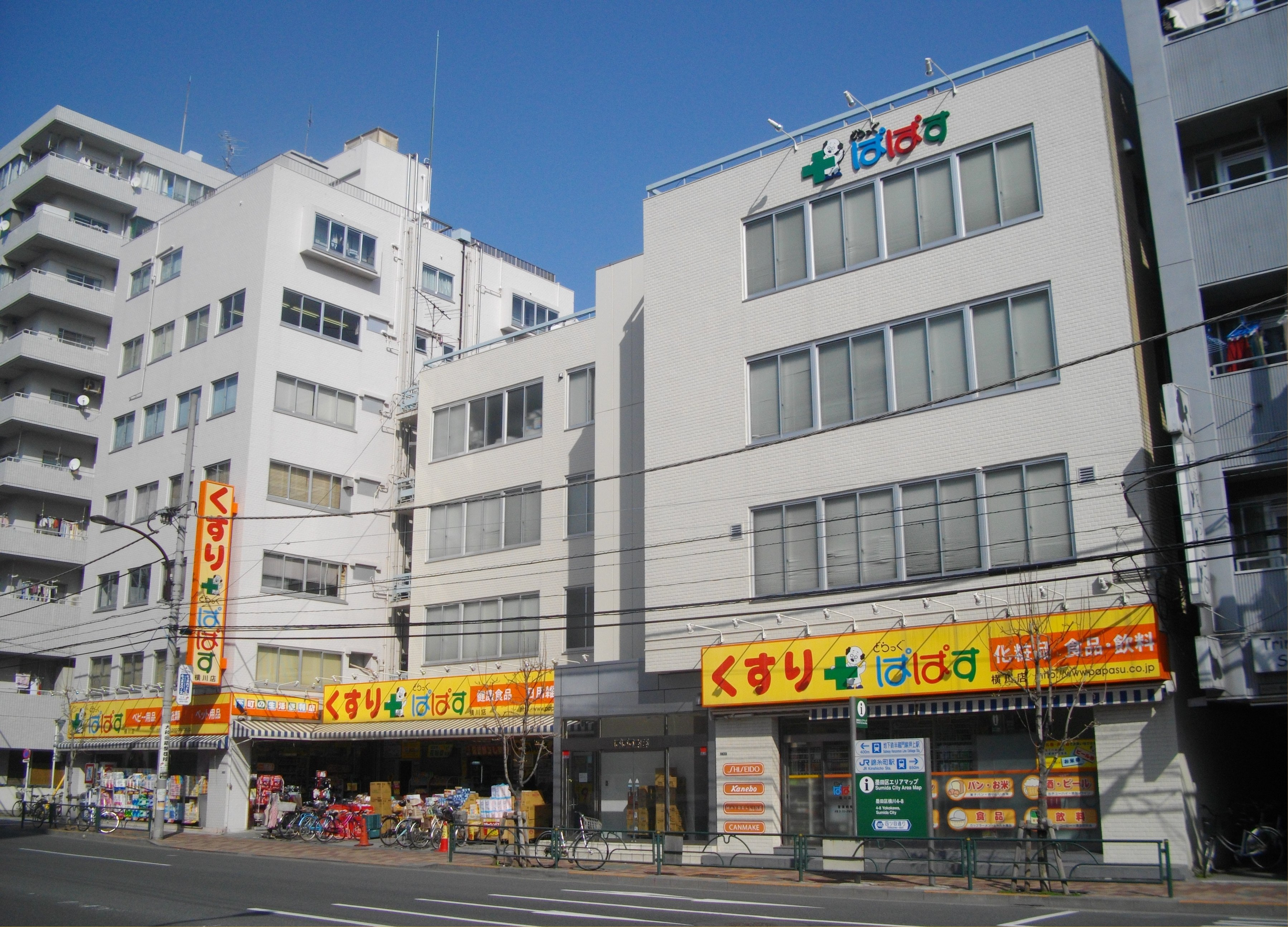 A photo of Drug Papasu(A pharmacy in Tokyo.) yokokawa branch shop.(also head office of Drug Papasu is here.)Yokokawa,Sumida-ku,Tokyo,Japan.